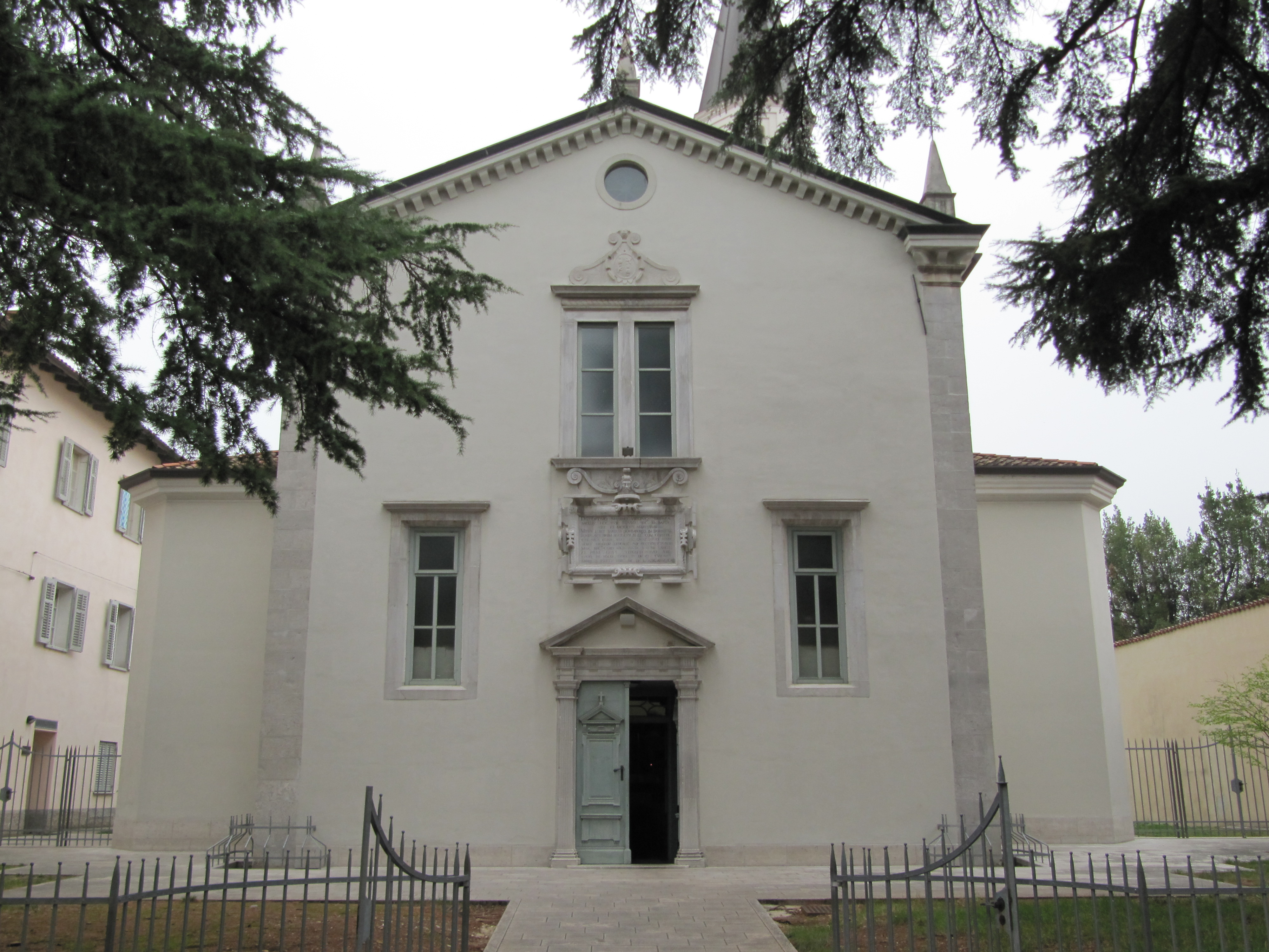 the church of St. Giovanni in Gorizia, built in 1590